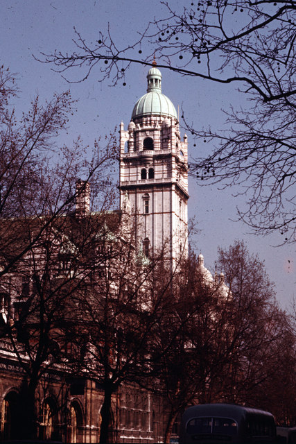 Imperial Institute Tower c1960